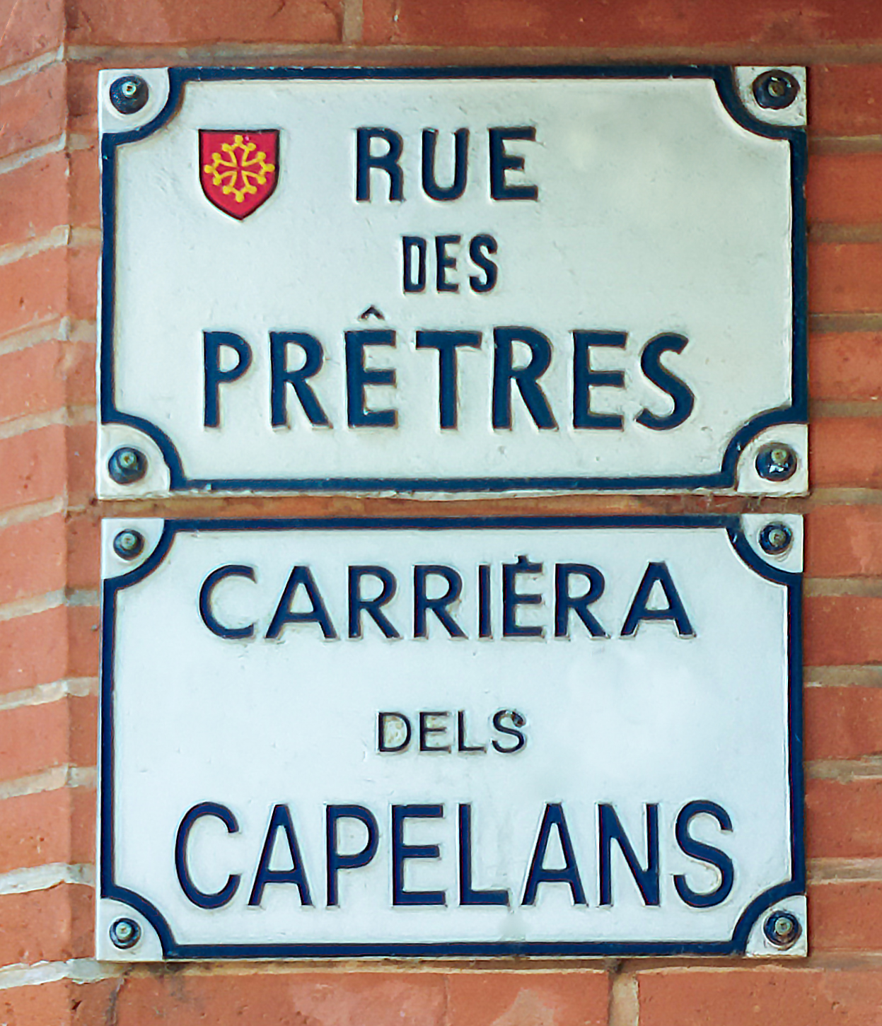 Street name sign in Toulouse. They have the particularity of being: in French and Occitan. Street of Priests.